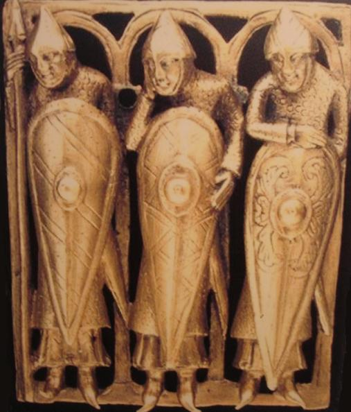 Uploader's old picture. The Temple Pyx is a "bronze-gilt ornament, which presumably once adorned a small reliquary",1. It is held in Burrell Collection, Glasgow, though it was found at Temple Church, London.2